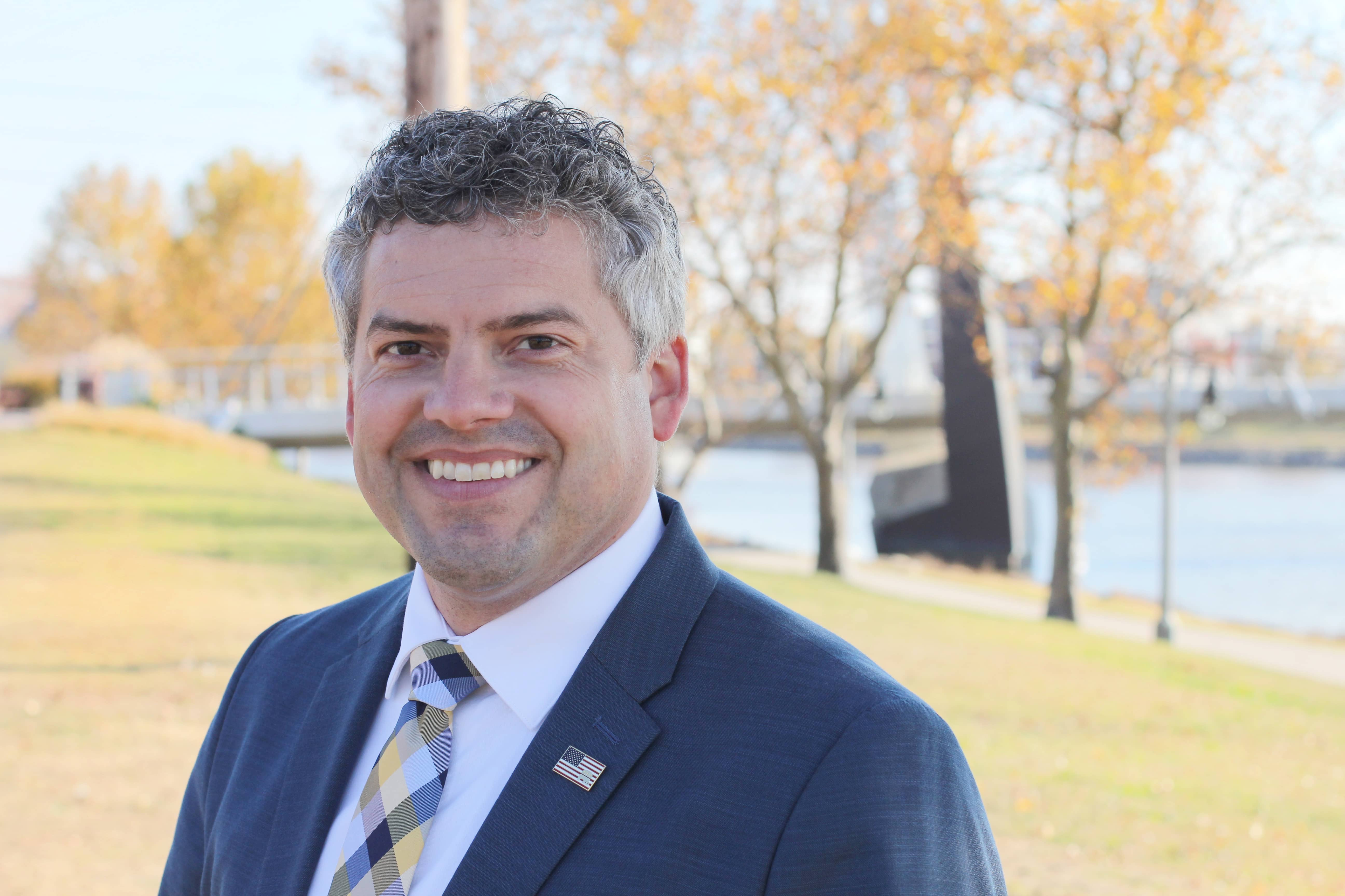 Kelly B. Arnold, Wichita Kansas